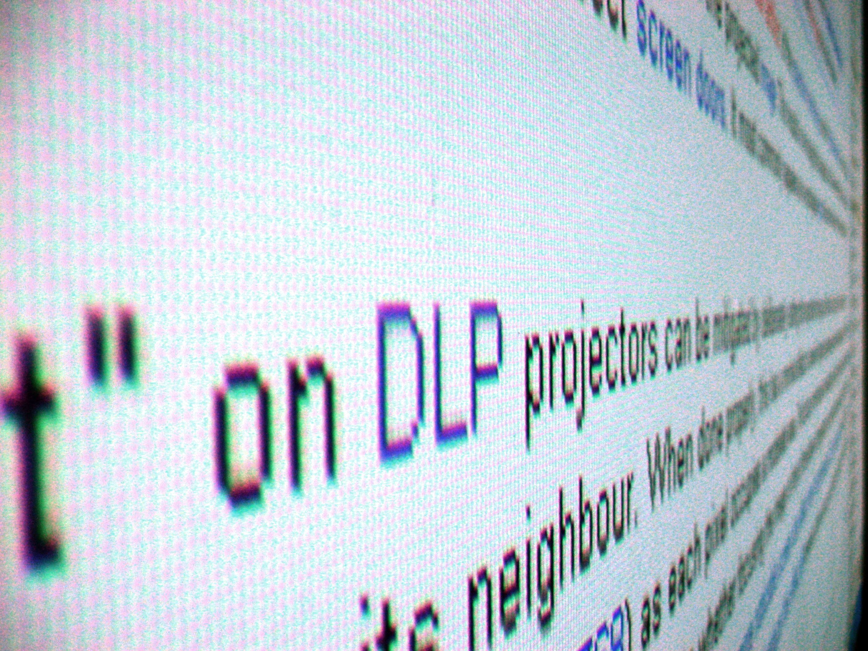 This is a picture demonstrating (at a very close camera position) the Screen Door Effect.